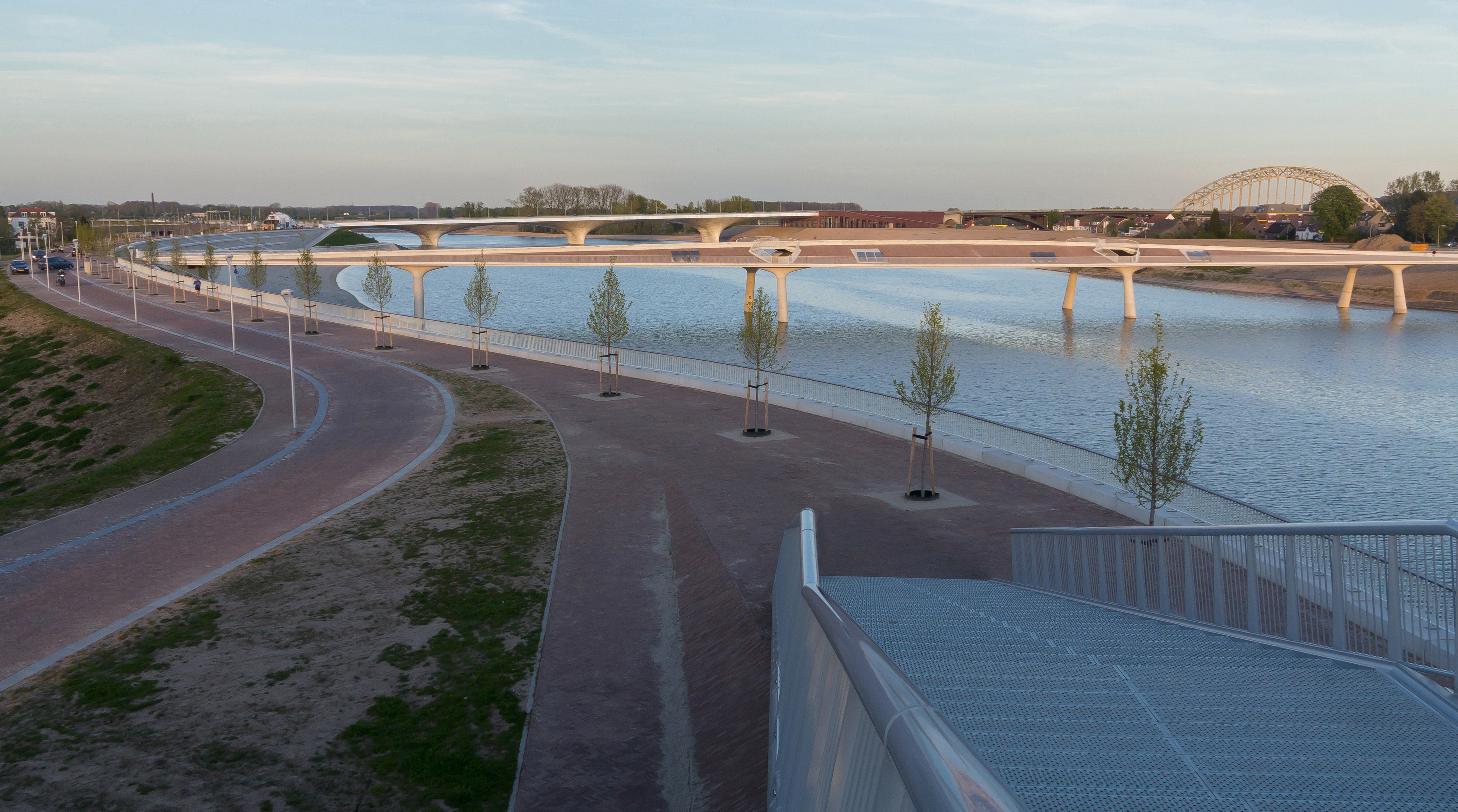 Nijmegen, bridge: de (Verlengde) Waalbrug en de Lenteloper